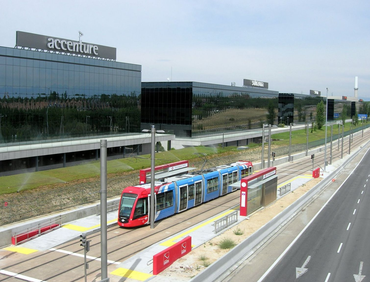 Metro Ligero 2 (Tram) in Madrid. Stop Somosaguas Centro